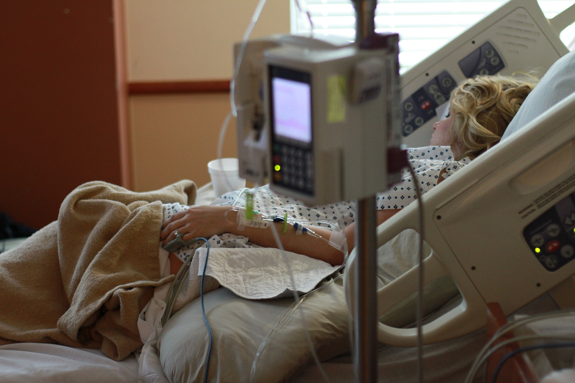 This picture depicts a laboring mom in the hospital appearing to be experiencing labor pains.